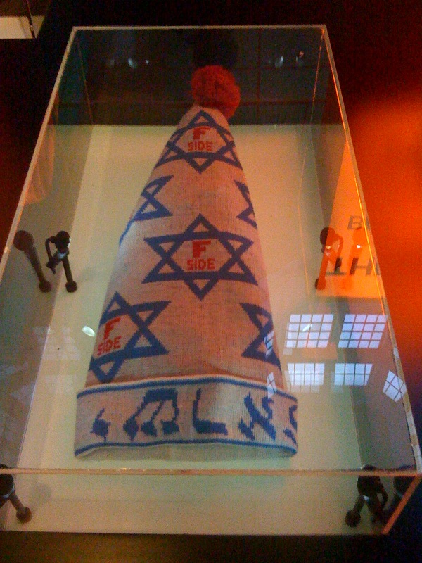 F Side material of AFC Ajax at Amsterdam Jewish Historical Museum